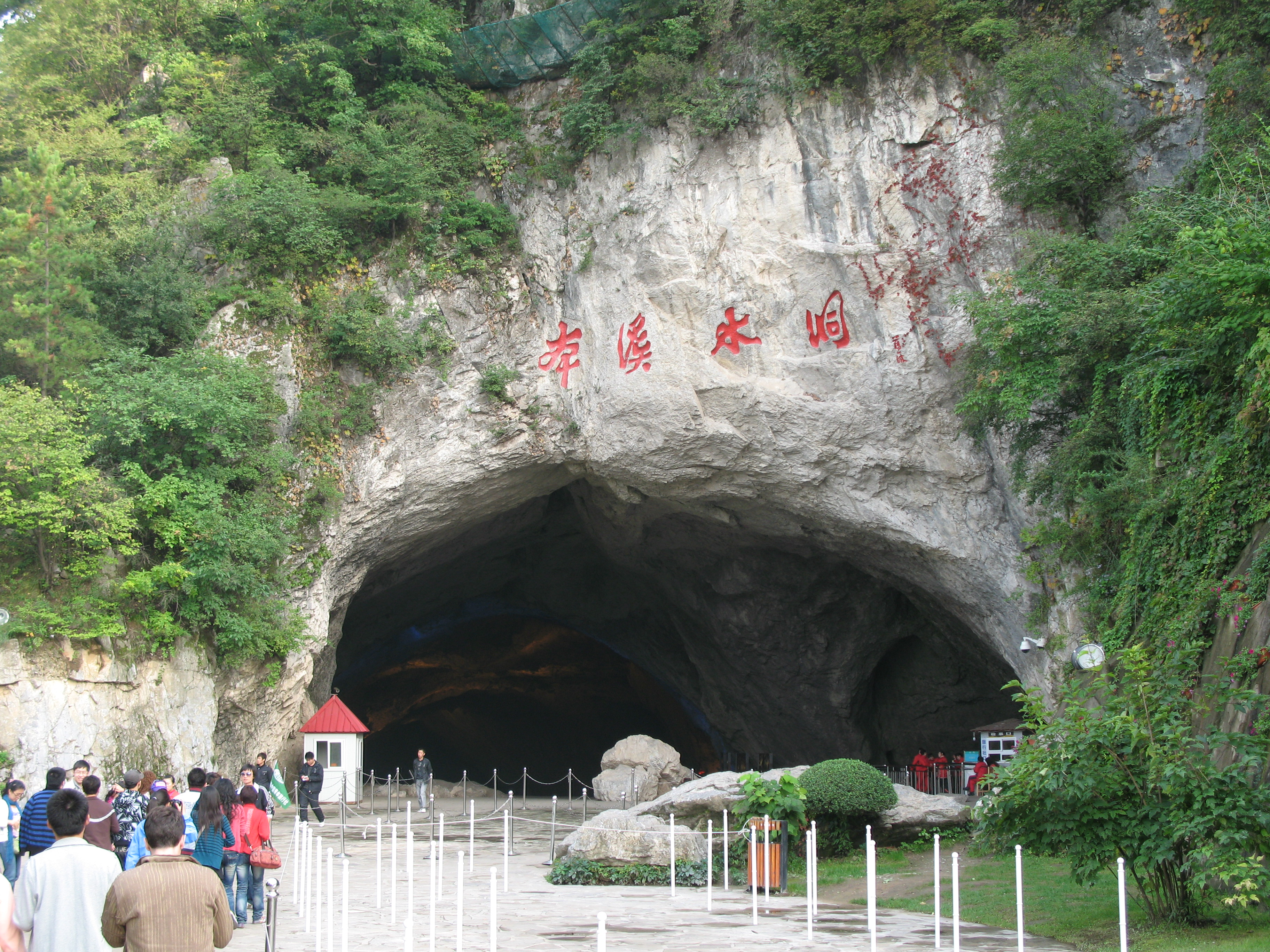 Entrance of watercave, Benxi.